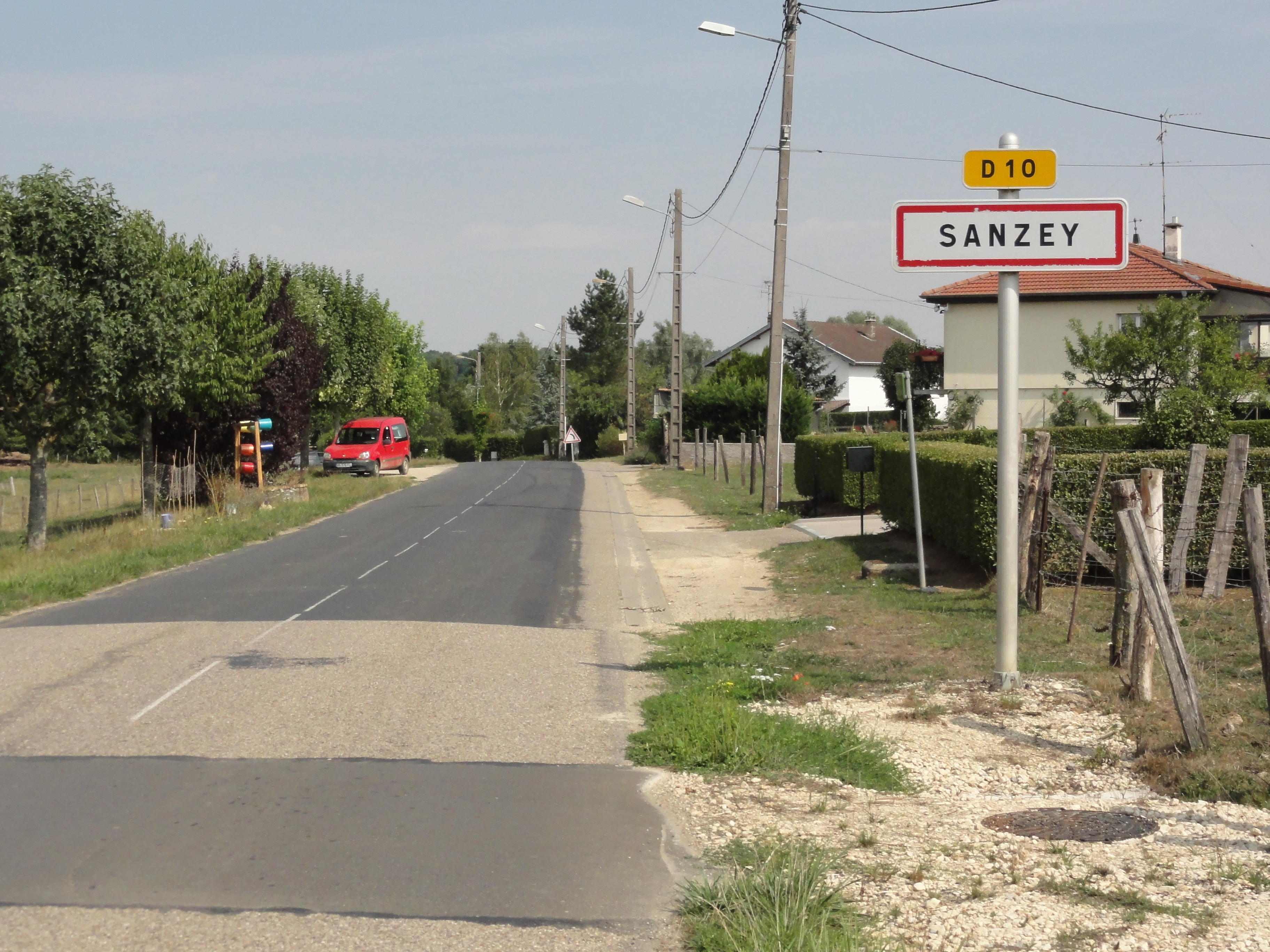 Sanzey (Meurthe-et-M.) city limit sign